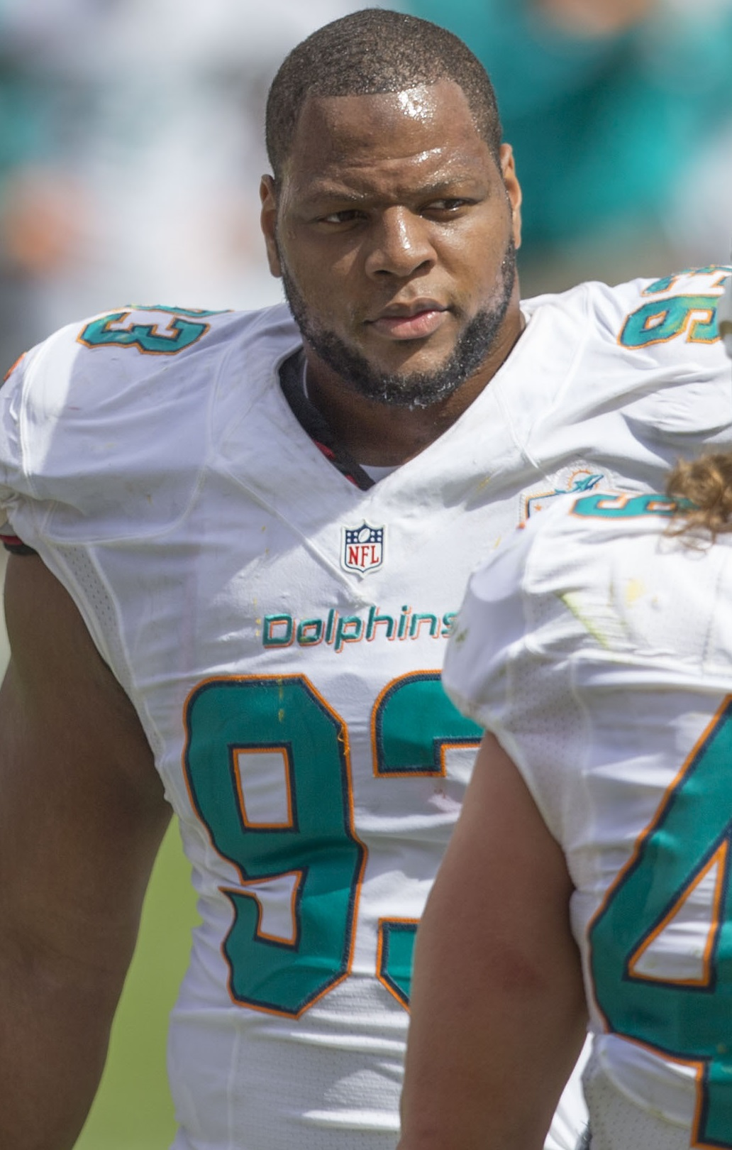 Dolphins at Redskins 9/13/15